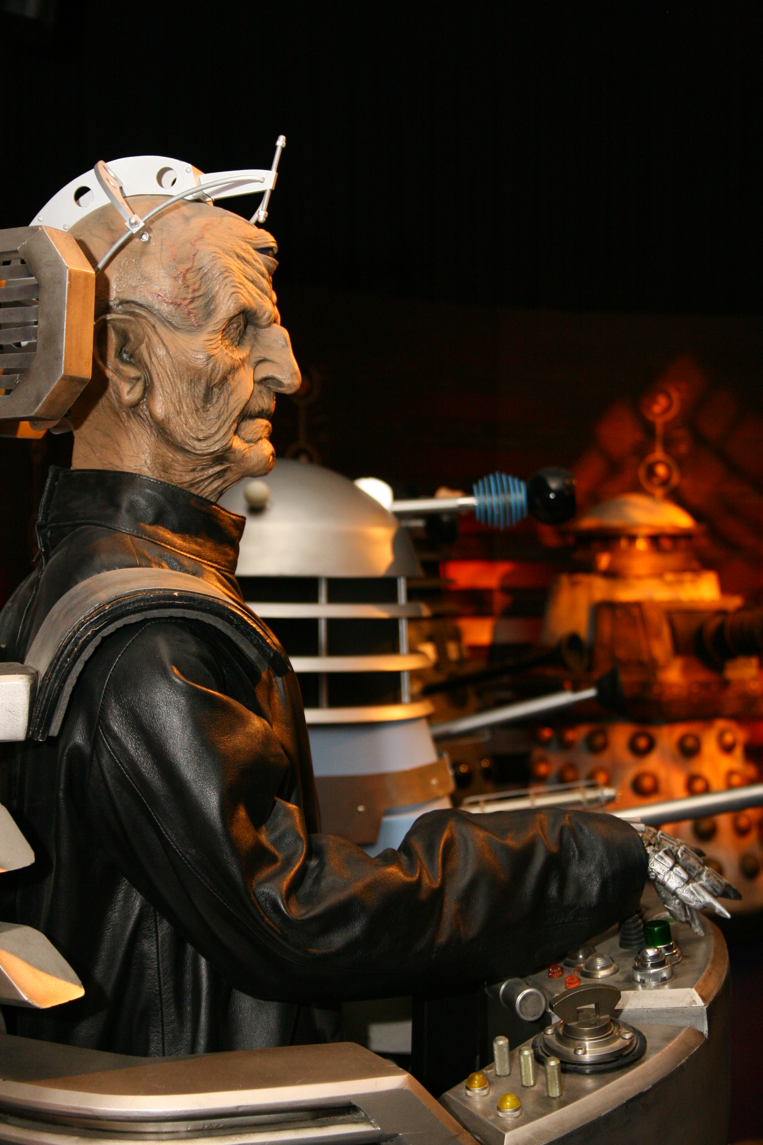 Davros and Daleks as seen on the Doctor Who Experience